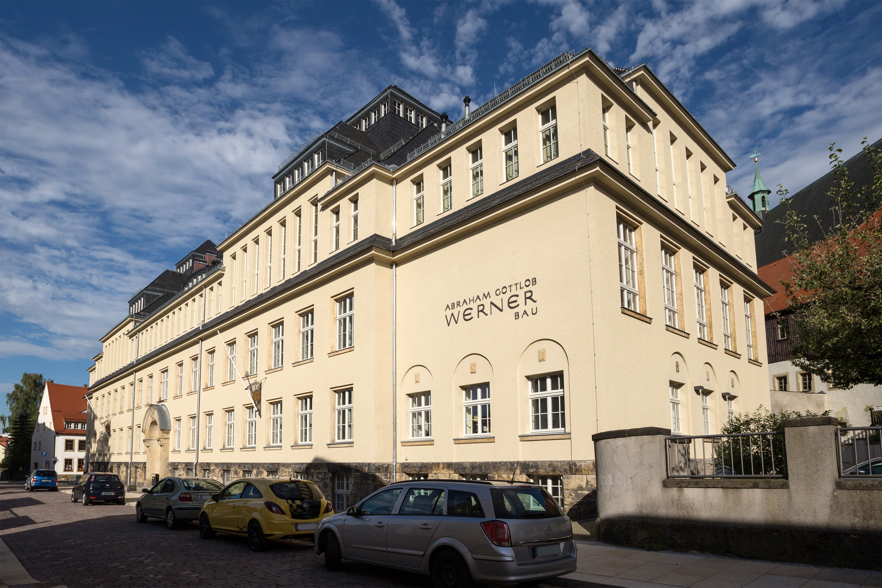 Freiberg, Brennhausgasse 14, Institute of Mineralogy (building named after Abraham Gottlob Werner)